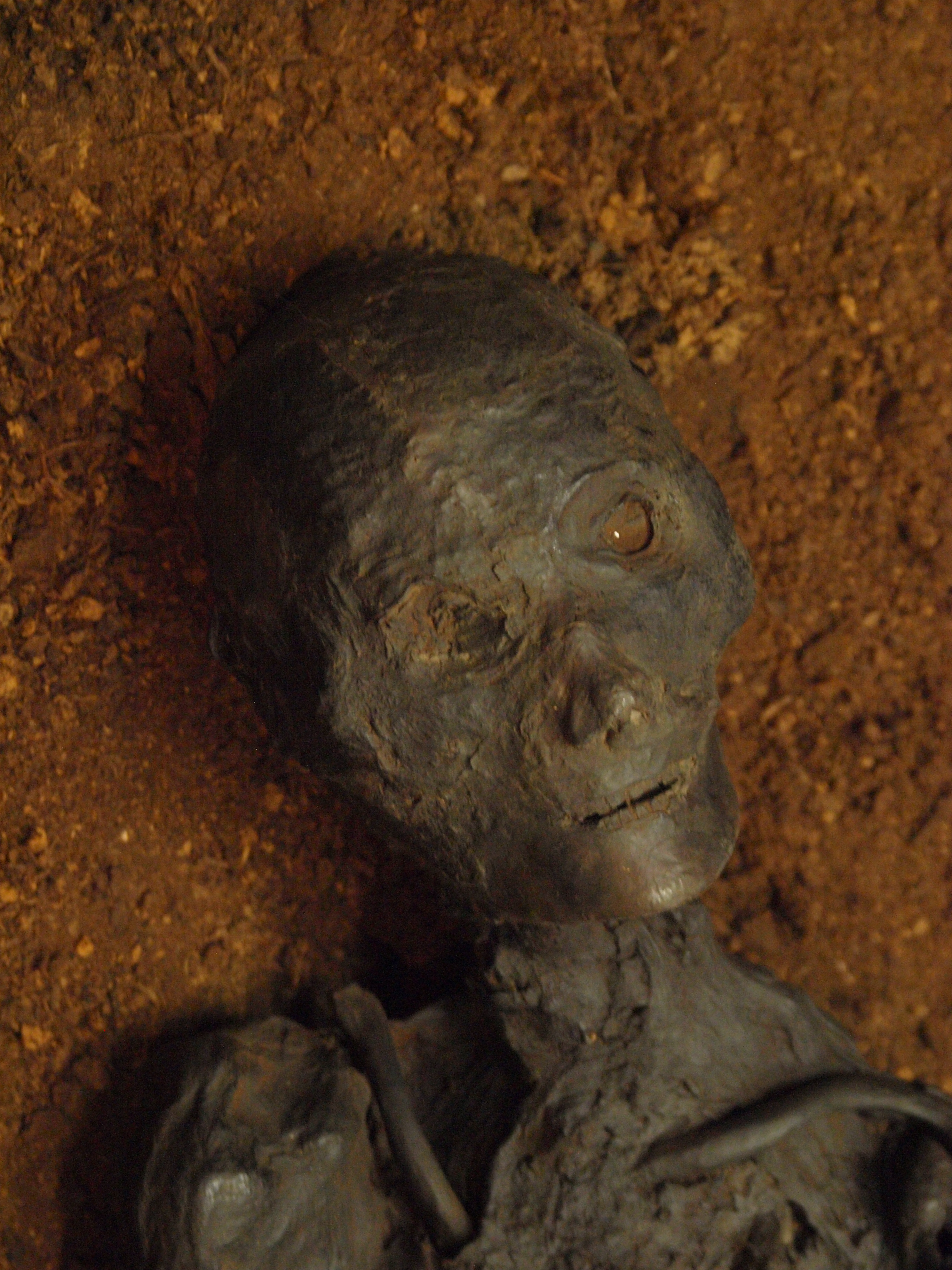 Portrait of bog body of the Rendswühren Man on display at Archäologisches Landesmuseum Gottorf Castle, Schleswig Germany. Found in 1871 in the Heidmoor near Rendswühren. Dated around 1st or 2nd century AD.